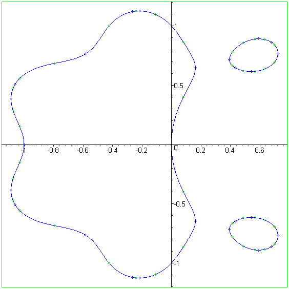 Cyclotomic polynomial lemniscate |z^6+z^5+z^4+z^3+z^2+z+1|=1